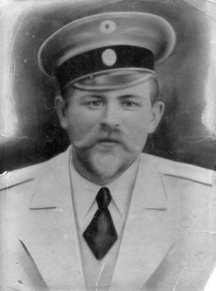 Konstantin Yunitsky